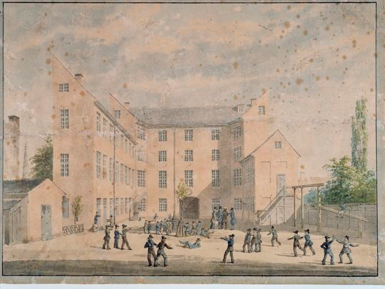 The school yard of the former Østre Borgerdyd Skole on Wildersgade in Christianshavn, Copenhagen, Denmark. This branch of the school later moved to Nørrebro and is now called Københavns Åbne Gymnasium.